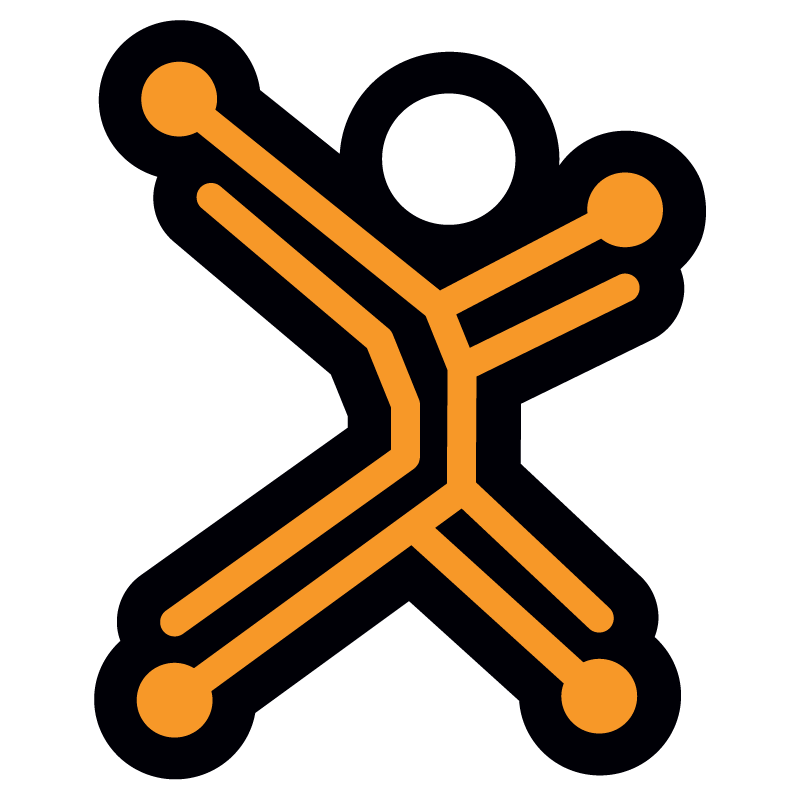 Perfect Choice Logo